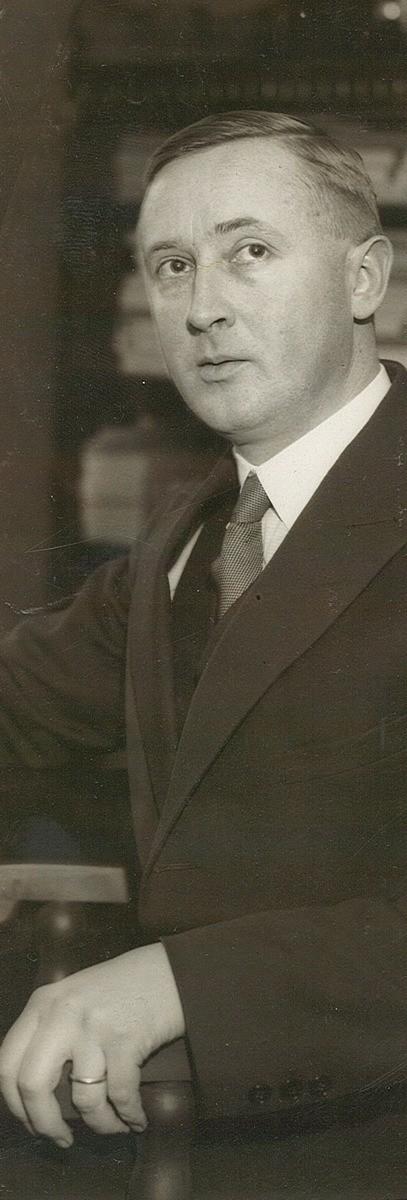 Norwegian professor of mathematics Trygve Nagell (1895–1988). Photo from the 1930s